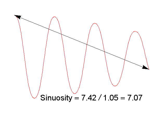 Representation of the concept and calculation of sinuosity.